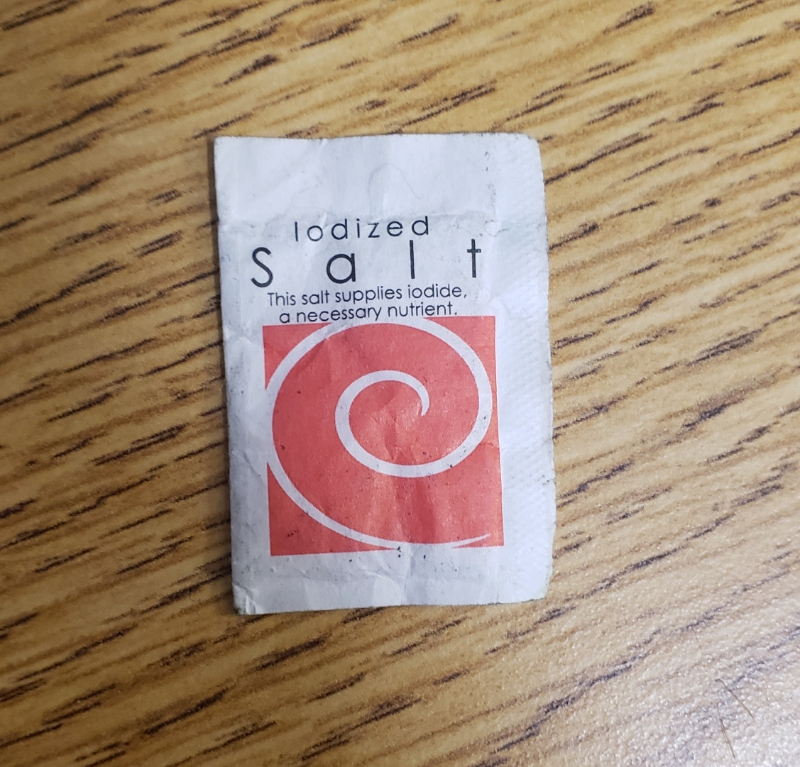 An example of a commonly distributed packet of iodised salt, spelt as iodized salt on the packet.